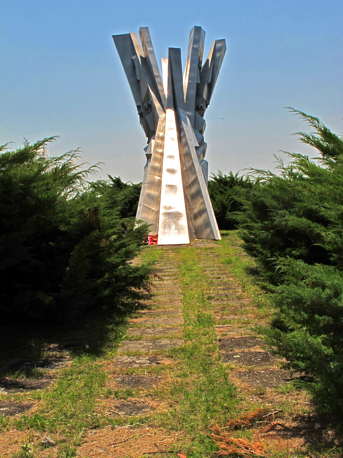 Monument to the Yugoslav partisans in Ostra.